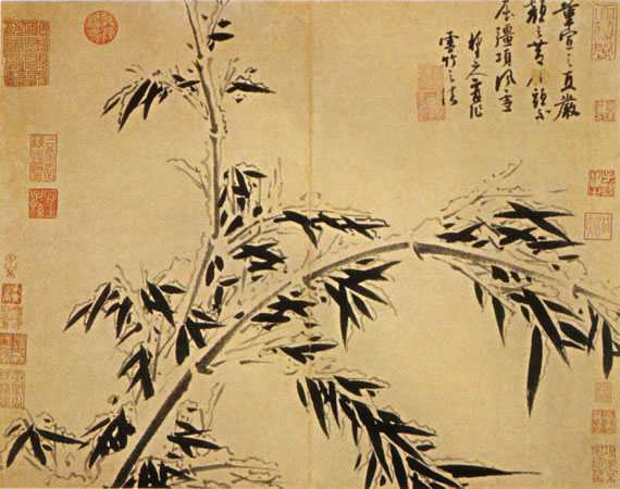 Wu Zhen (1280-1354): Winter Bamboo